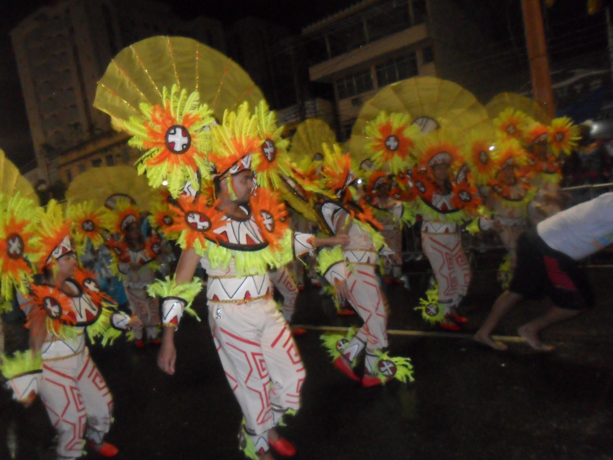 CCES Flor da Mina do Andaraí